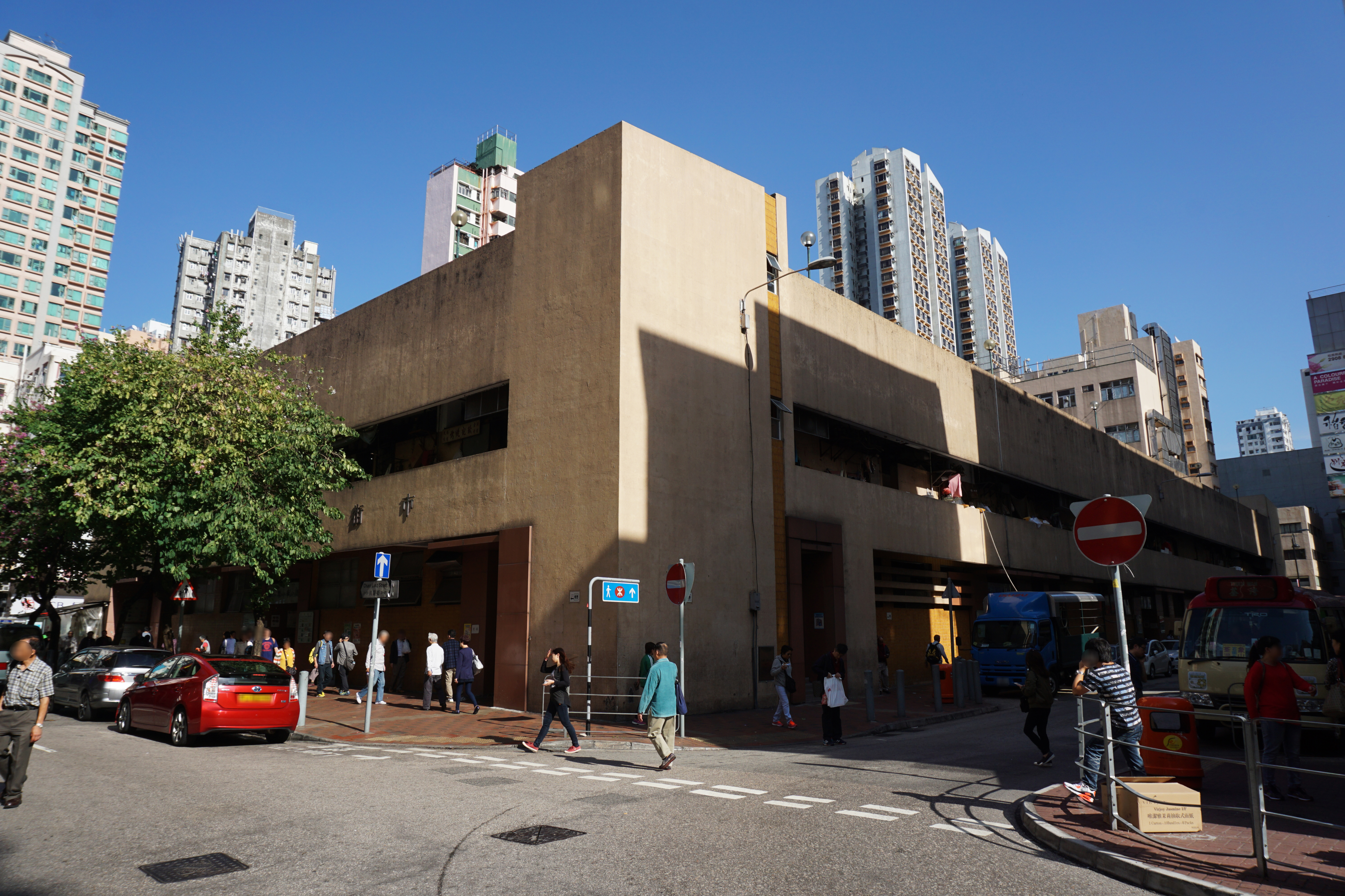 Market in Tsuen Wan, Hong Kong.